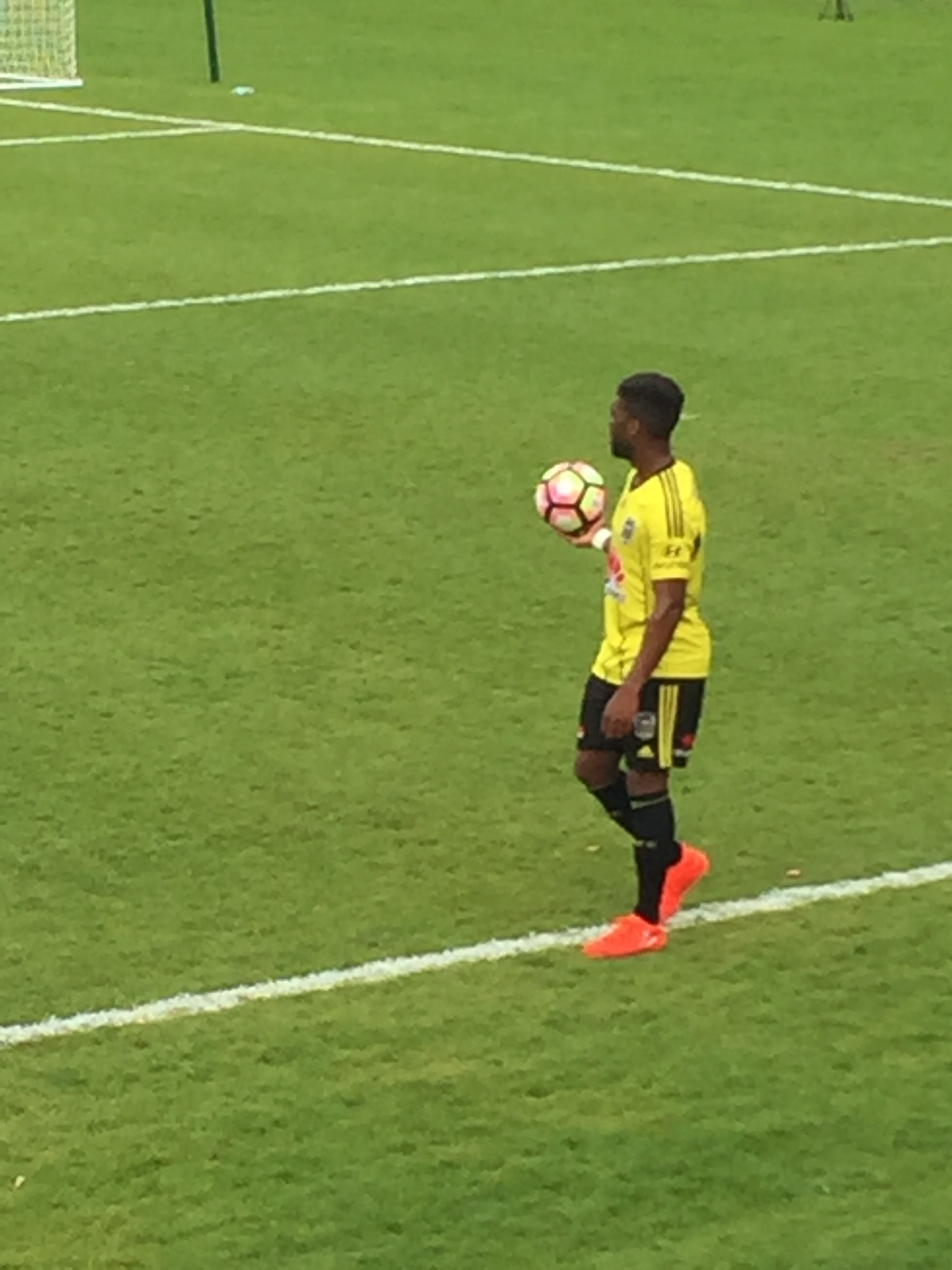 Roll Bonevacia playing for Wellington Phoenix against Central Coast Mariners at Knox Grammar School on 17 September 2016